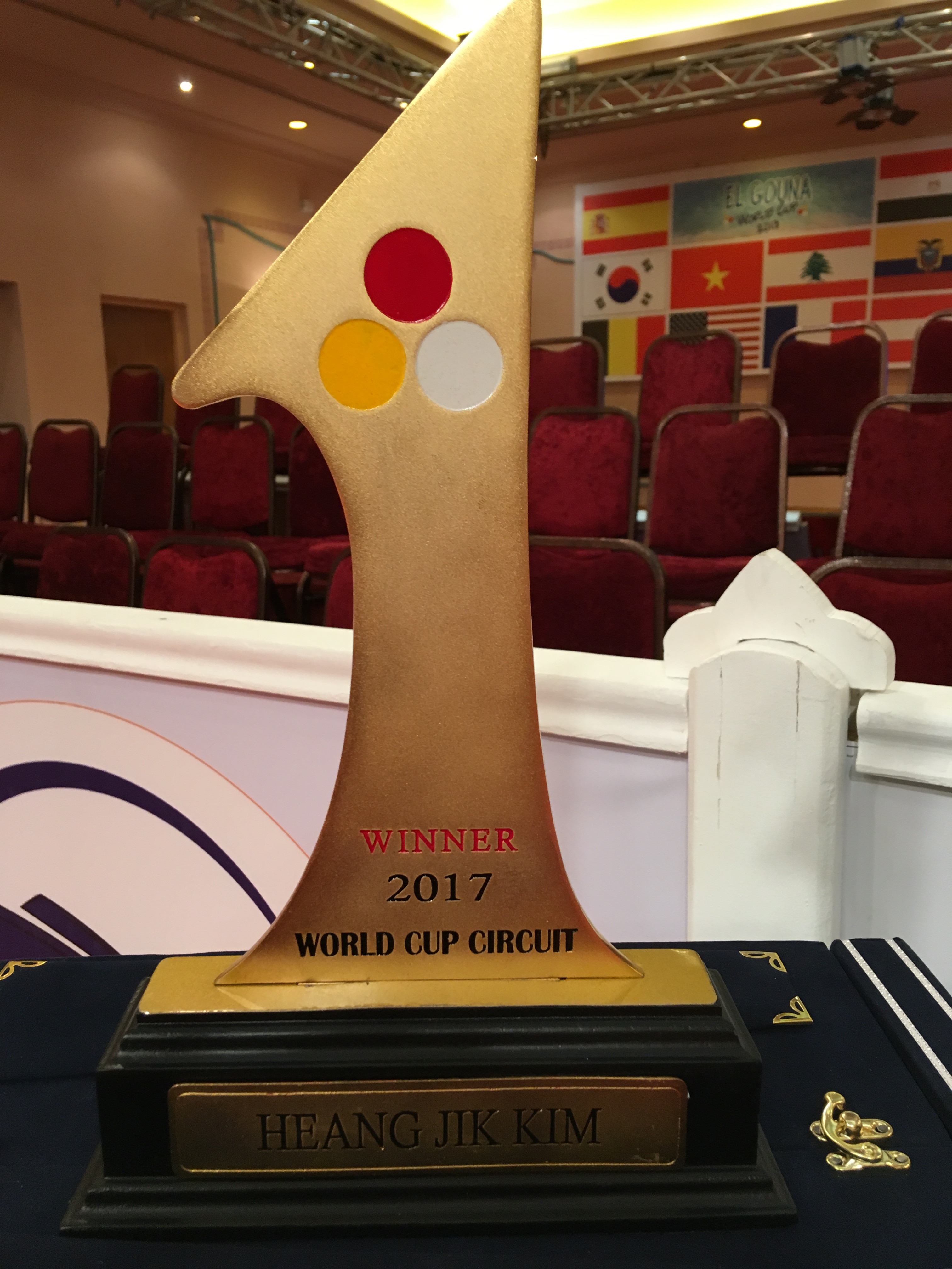 see file name